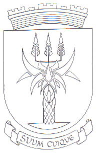 coat of arms of the city of Windhoek, Namibia